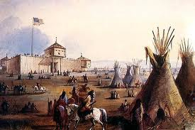 Ft. Laramie, Wyoming, 1868